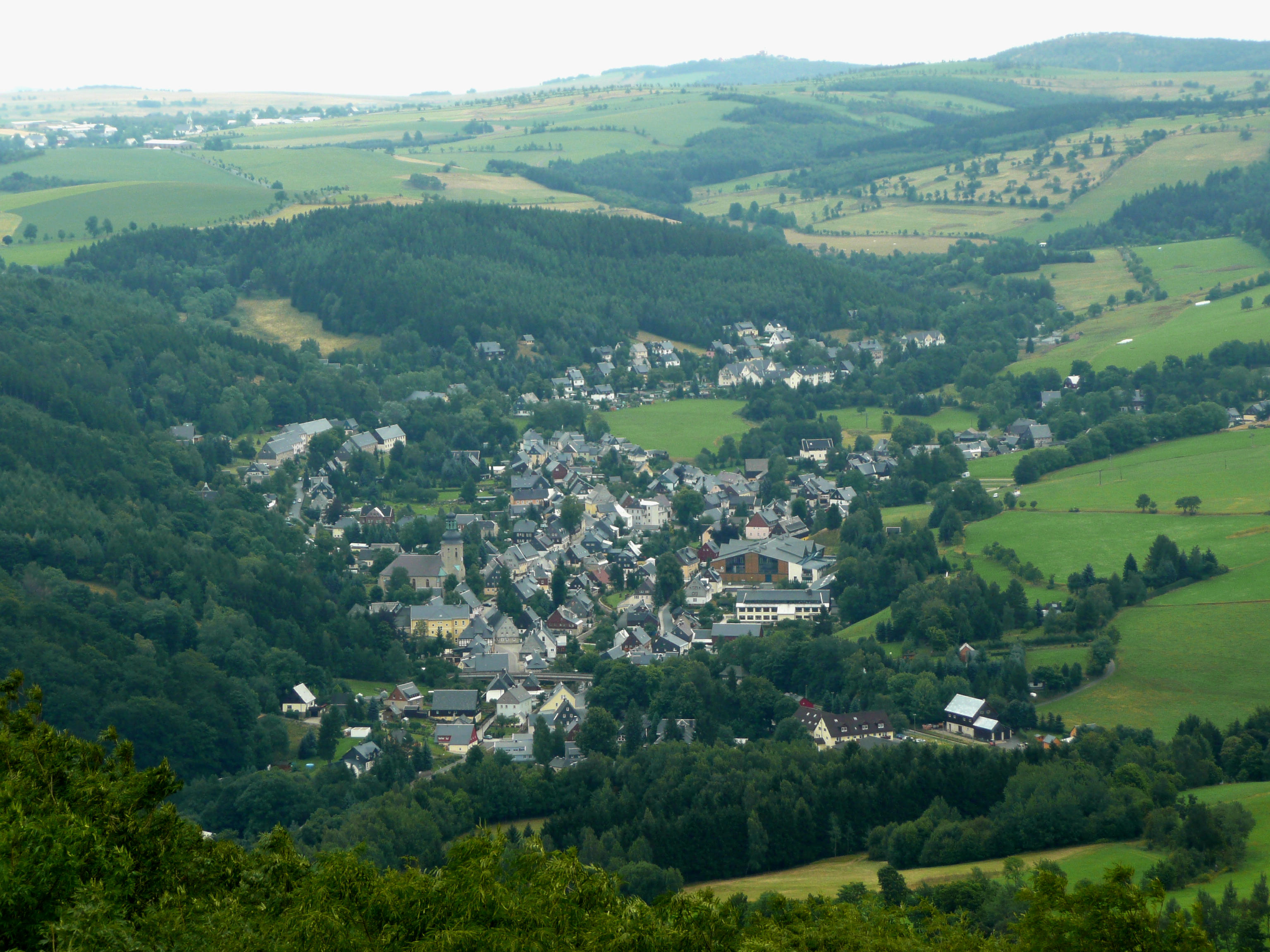 view on Geising in the Ore Mountains.